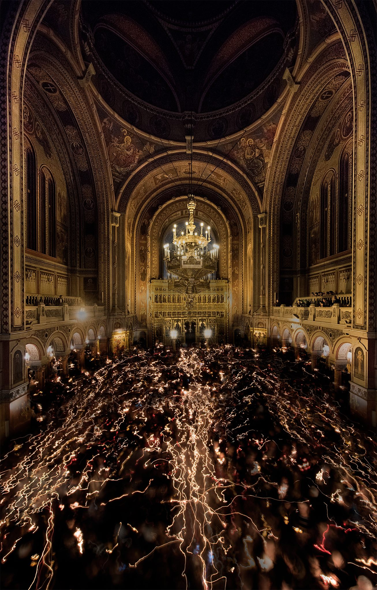 2017 Easter in the Romanian Timișoara Orthodox Cathedral